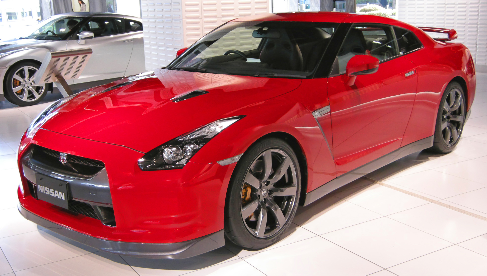 Nissan GT-R Premium Edition photographed in Nissan Gallery (Chuo, Tokyo)